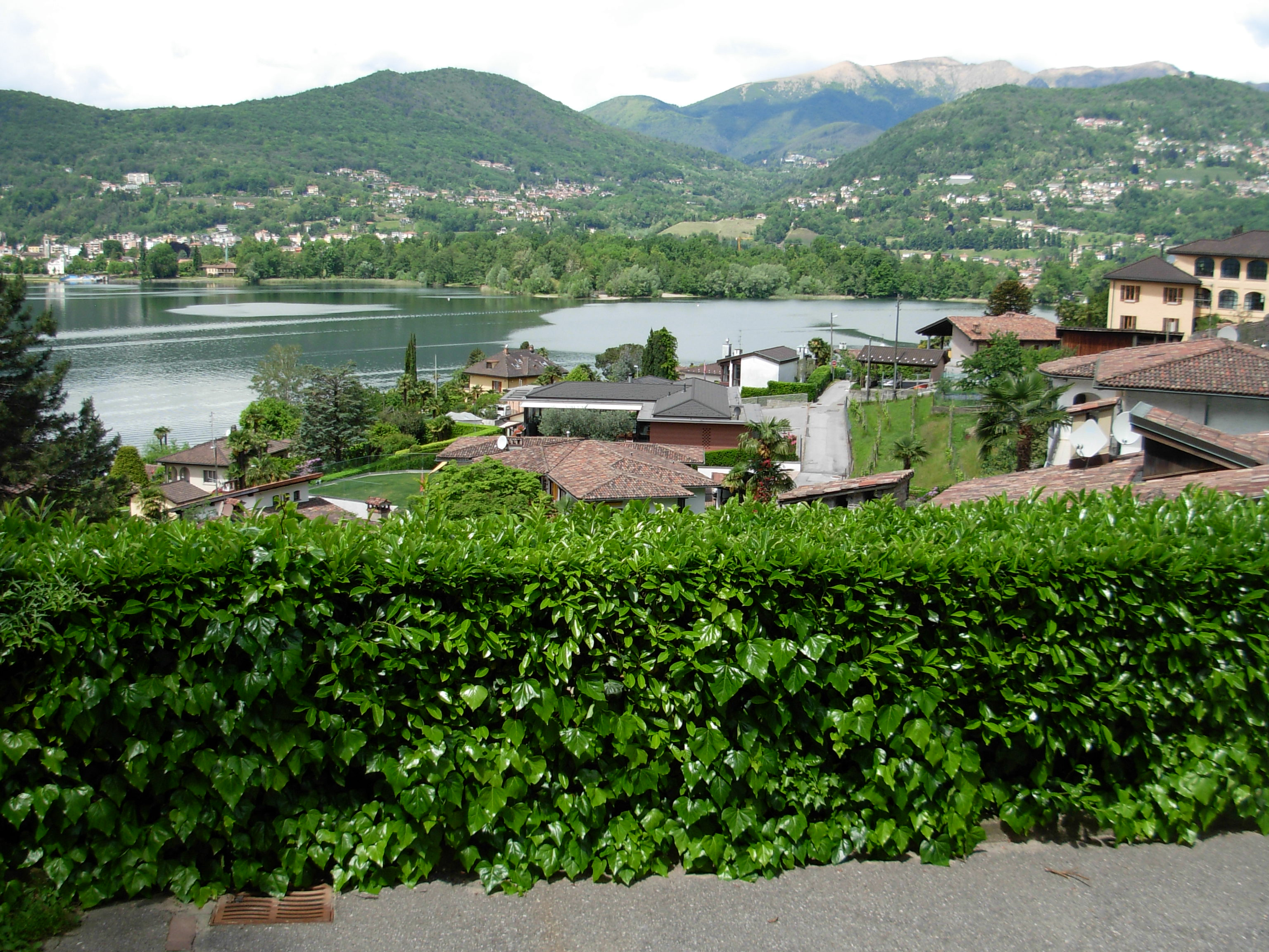 View from the village Carabietta to the lake of Lugano